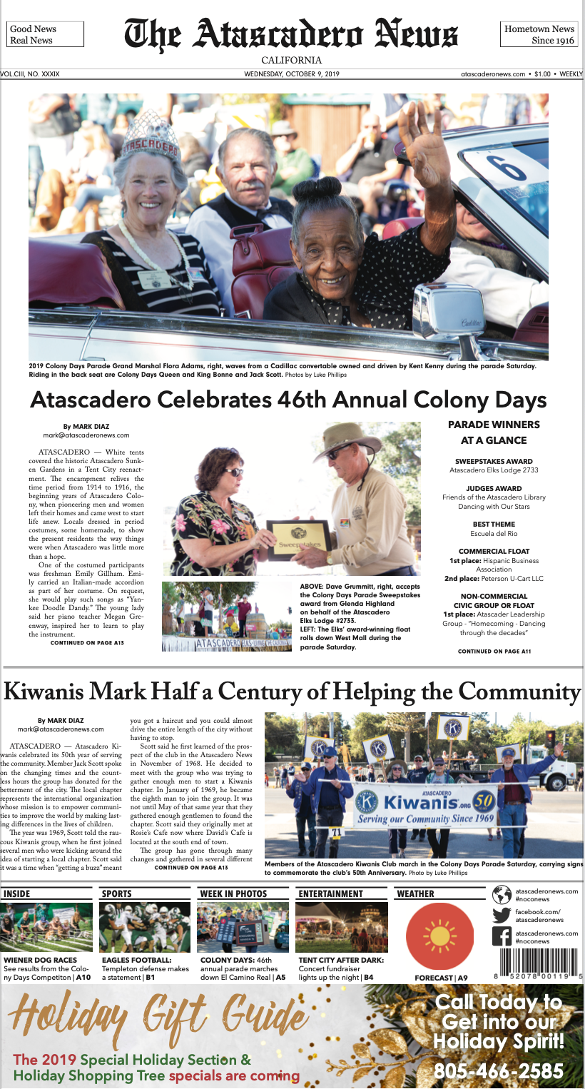 The Atascadero News Front Page